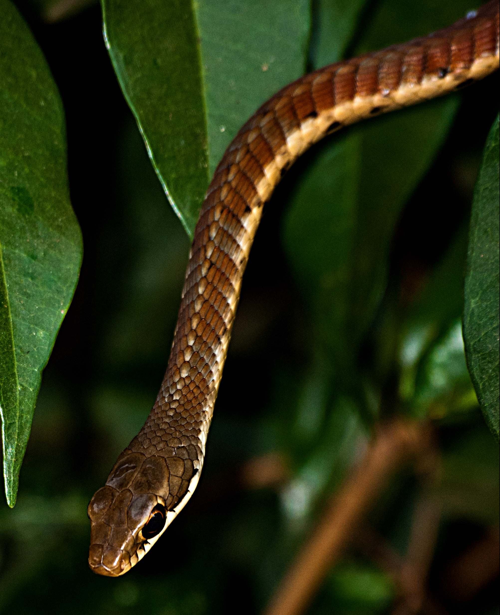 Dendrelaphis chairecacos is a species of colubrid snake found in western ghats region of south India.